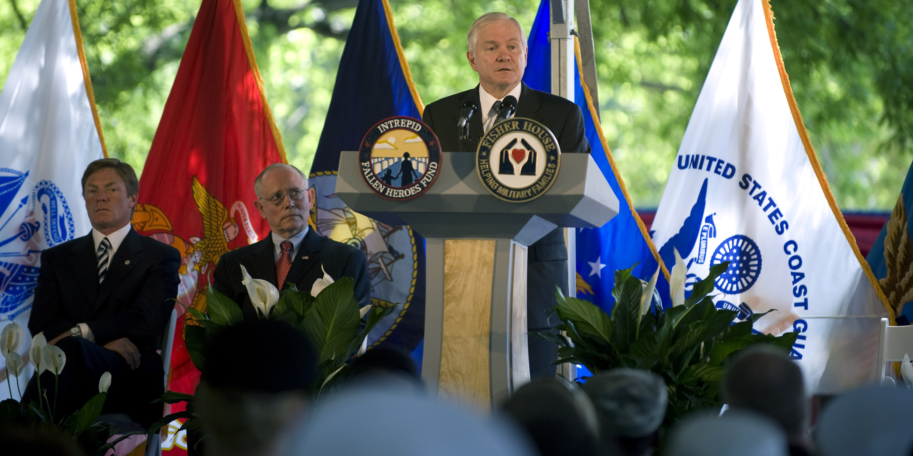 Robert M. Gates speaking at the ground breaking ceremony for the National Intrepid Center of Excellence at National Navy Medical Center